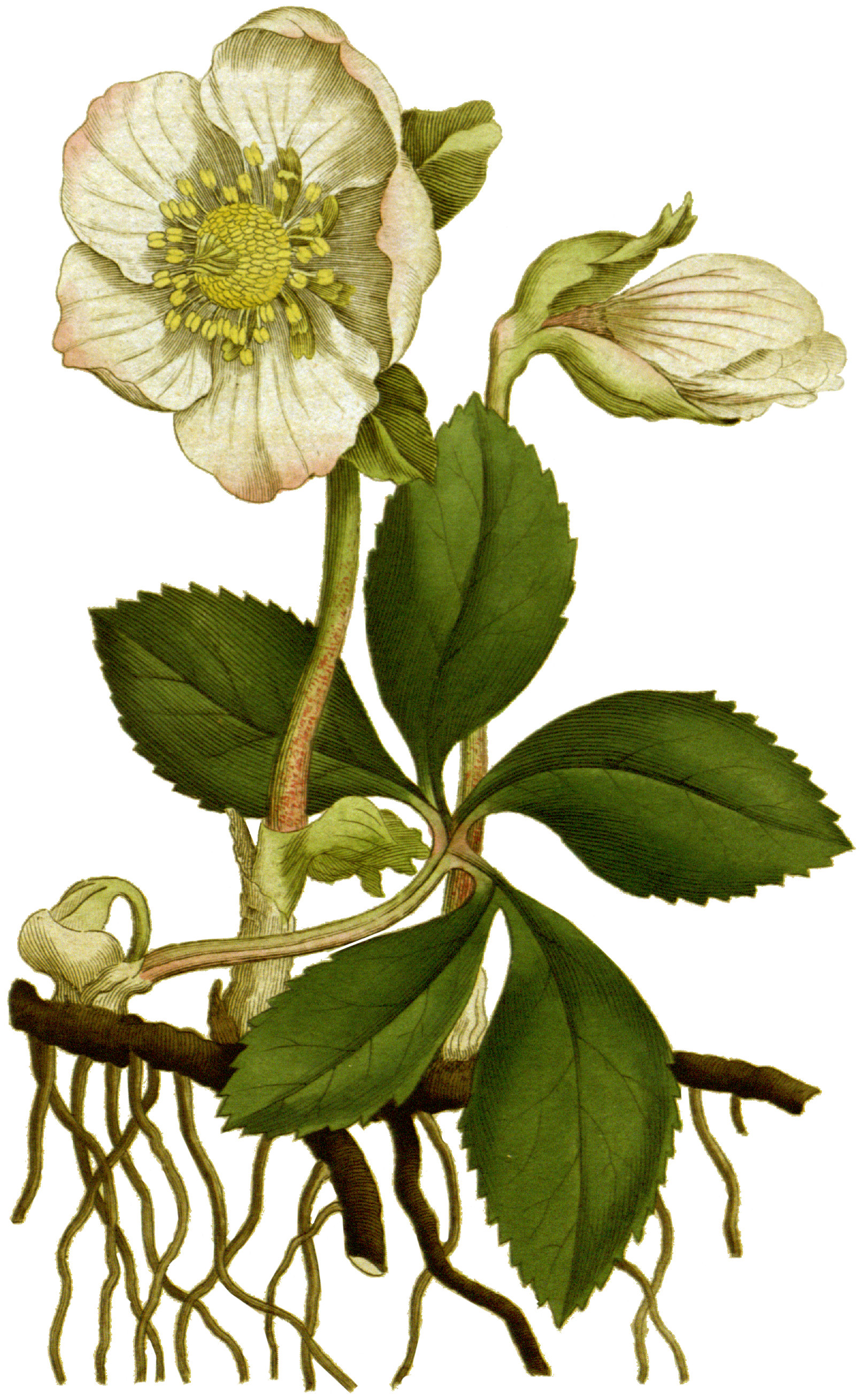 Plate 8, Helleborus niger From Curtis's Botanical Magazine, Volume 1. Edited from the original, plant image has been masked so that plant could be color corrected independent of paper.